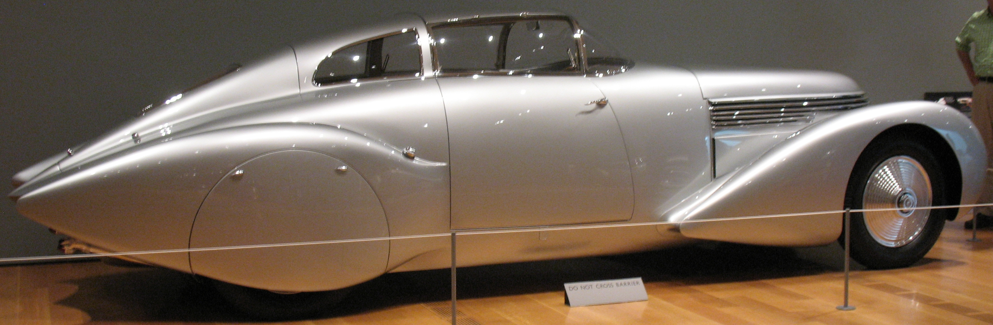 1937 Dubonnet Hispano-Suiza H-6C "Xenia" Andre Dubonnet had the car designed (Andreau) and built (Saoutchik) on a Hispano-Suiza chassis. It is named after his late wife, Xenia.